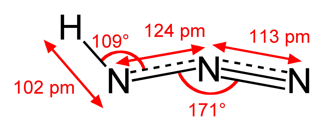 Structure and dimensions of the hydrogen azide molecule, HN3. Structural data from Greenwood, N. N.; Earnshaw, A. (1997) Chemistry of the Elements (2nd ed.), Oxford:Butterworth-Heinemann ISBN: 0-7506-3365-4.